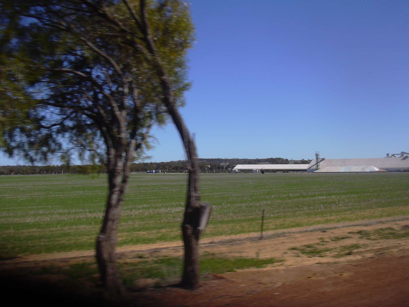 wheat field near Quairading, Western Australia (Wheat silo or bin at rear of photo)